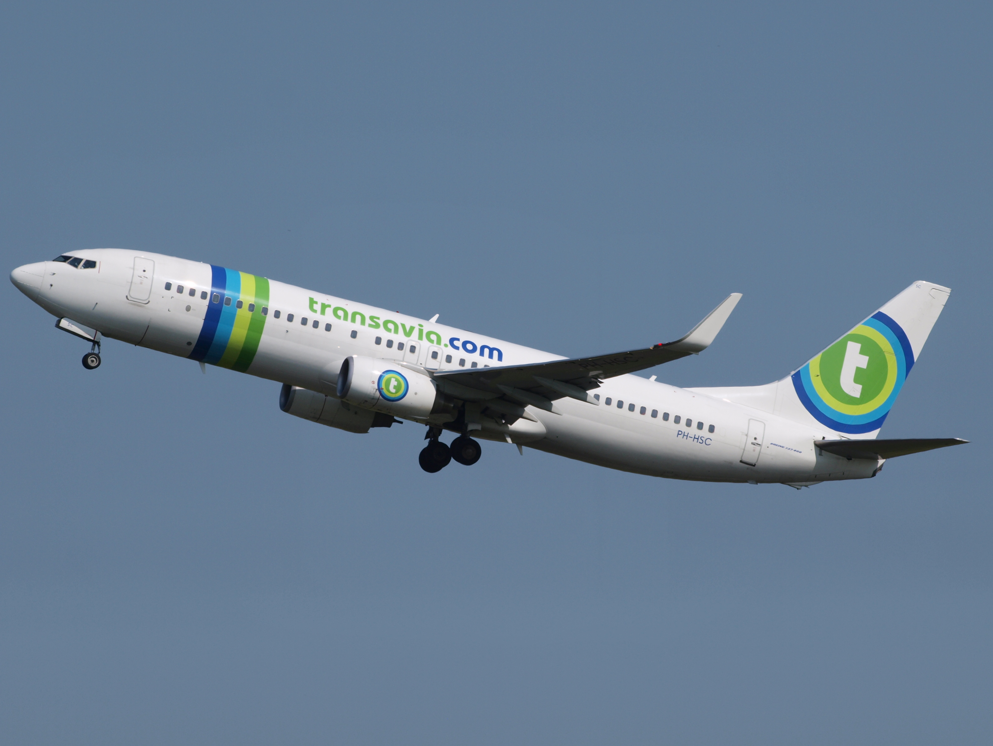 Photographed at Amsterdam airport Schiphol, the Netherlands. OLYMPUS DIGITAL CAMERA